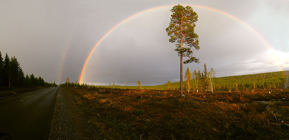 rainbows, wether phenomena, Lappland, Sweden, white nights